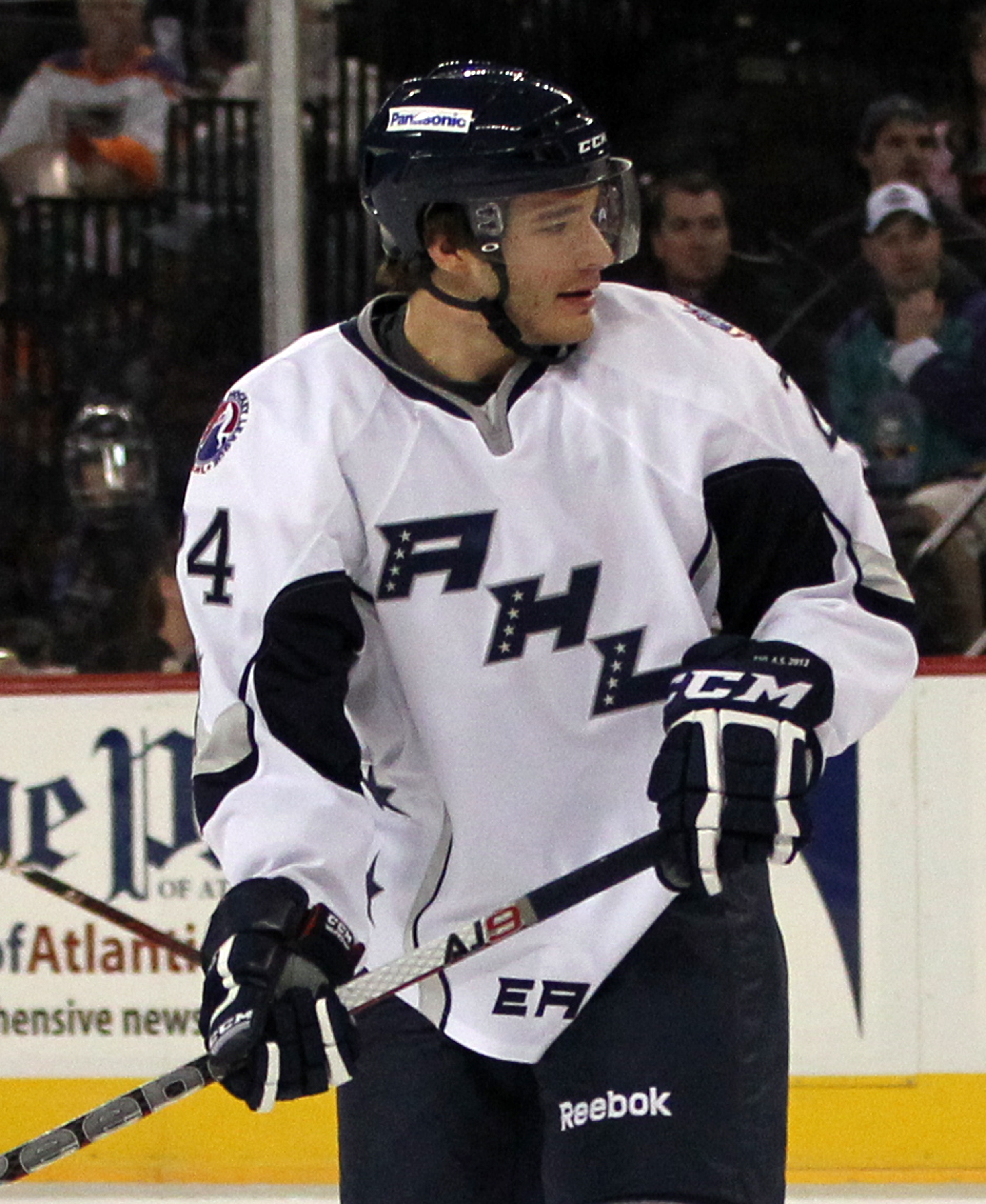 PhotoGraphics Photography/AHL American Hockey League (AHL) All-Star Game Taken on January 30, 2012 using a Canon EOS-1D Mark IV All-Star 1st Period (Set: 14) Keith Aucoin & Alex Plante Brian Connelly, Kyle Palmieri, & Matt Hackett Matt Irwin Brian Connelly, Kyle Palmieri, & Matt Hackett Brian Connelly, Kyle Palmieri, & Matt Hackett Mascot Game Philippe Cornet & Mats Zuccarello Mats Zuccarello & Matt Hackett Mats Zuccarello First photo → This photo also appears in TheAHL's photostream